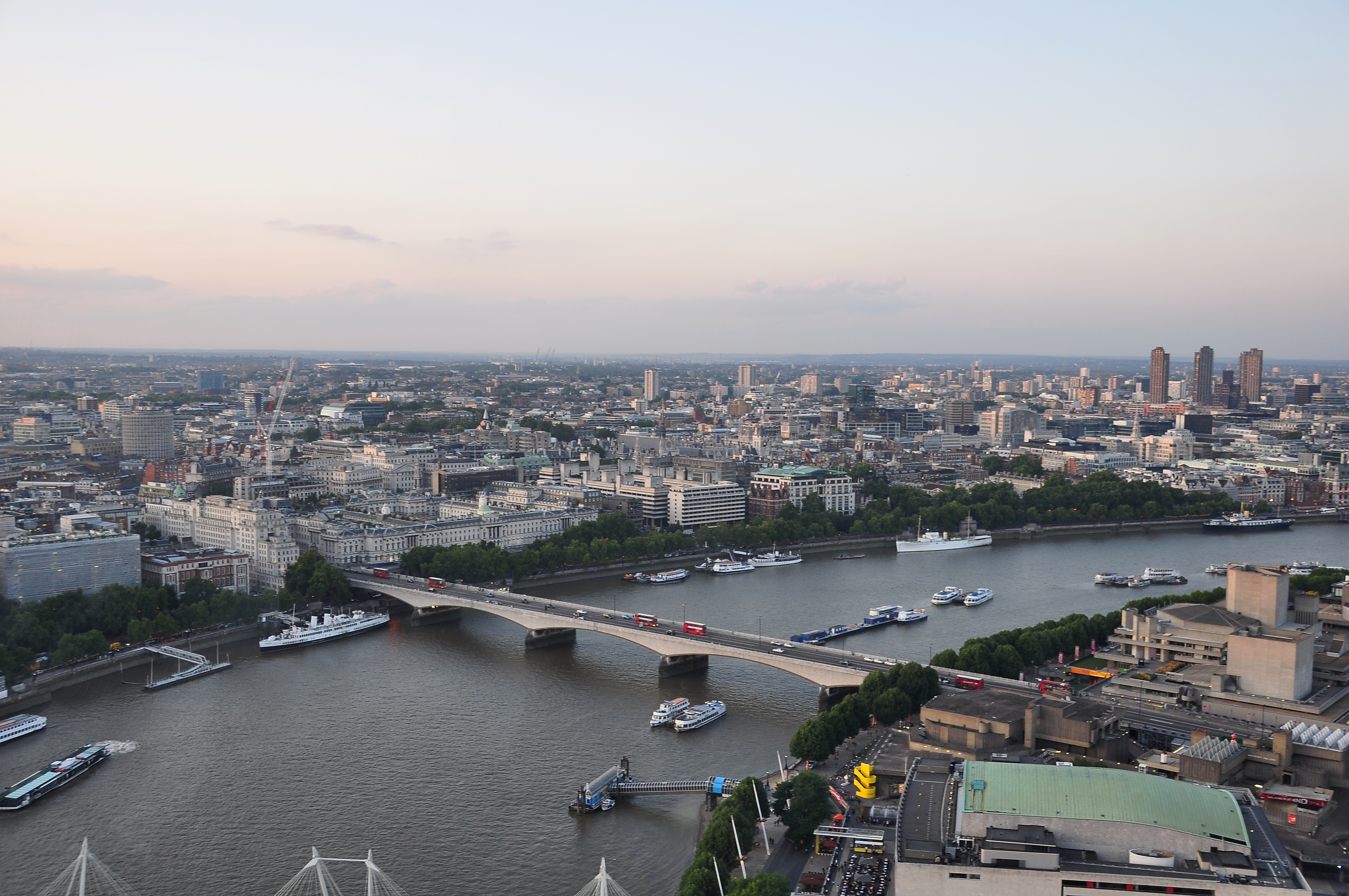 River Thames in London: with Waterloo Bridge and Victoria Embankment in the centre. Several permanently moored ships are visible: TS Queen Mary, St Katharine, HMS Wellington, HMS President. The piers below Waterloo Bridge are Savoy Pier (left) and Festival Pier (right).